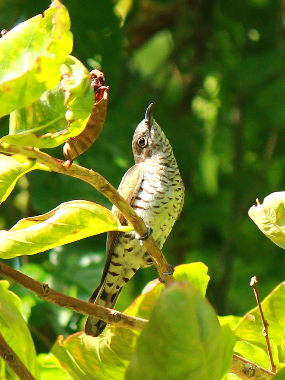 Gould’s Bronze Cuckoo (Chrysococcyx russatus) at Manado, North SulawesiBahasa Indonesia: Kedasi gould (Chrysococcyx russatus) di Manado, Sulawesi Utara